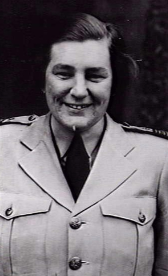 Margaret Blackwood (1909-1986), air force officer in WWII, geneticist, botanist, academic in civilian life, DBE 1981